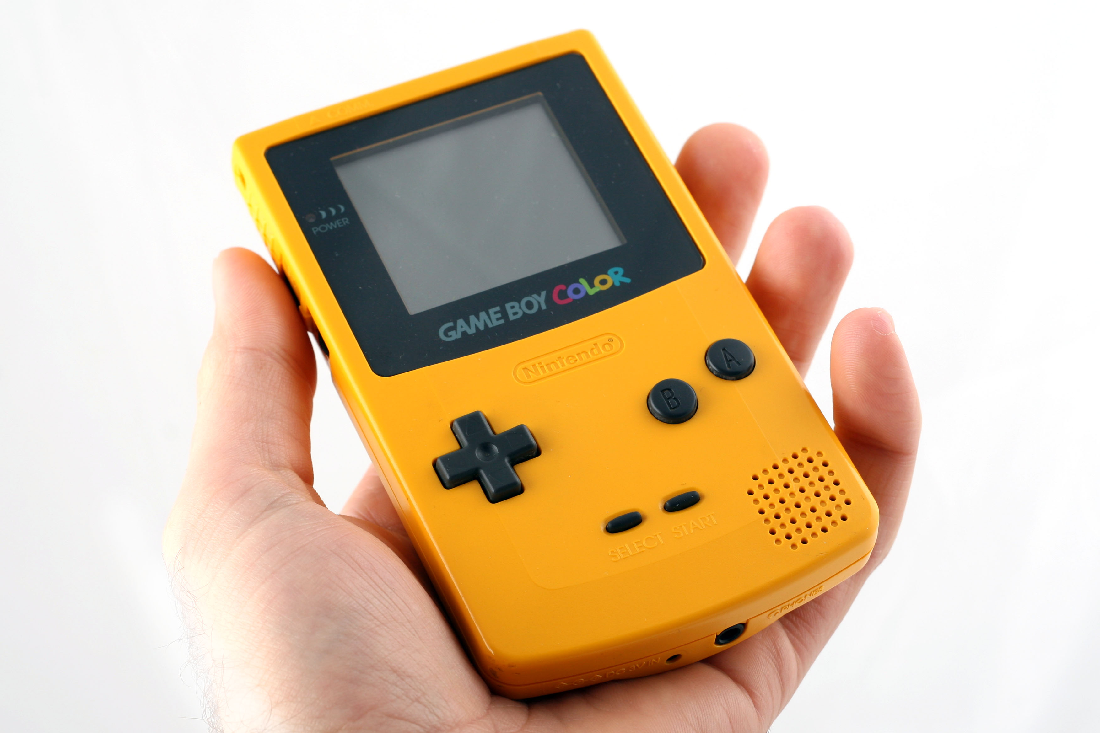 Nintendo Game Boy Color